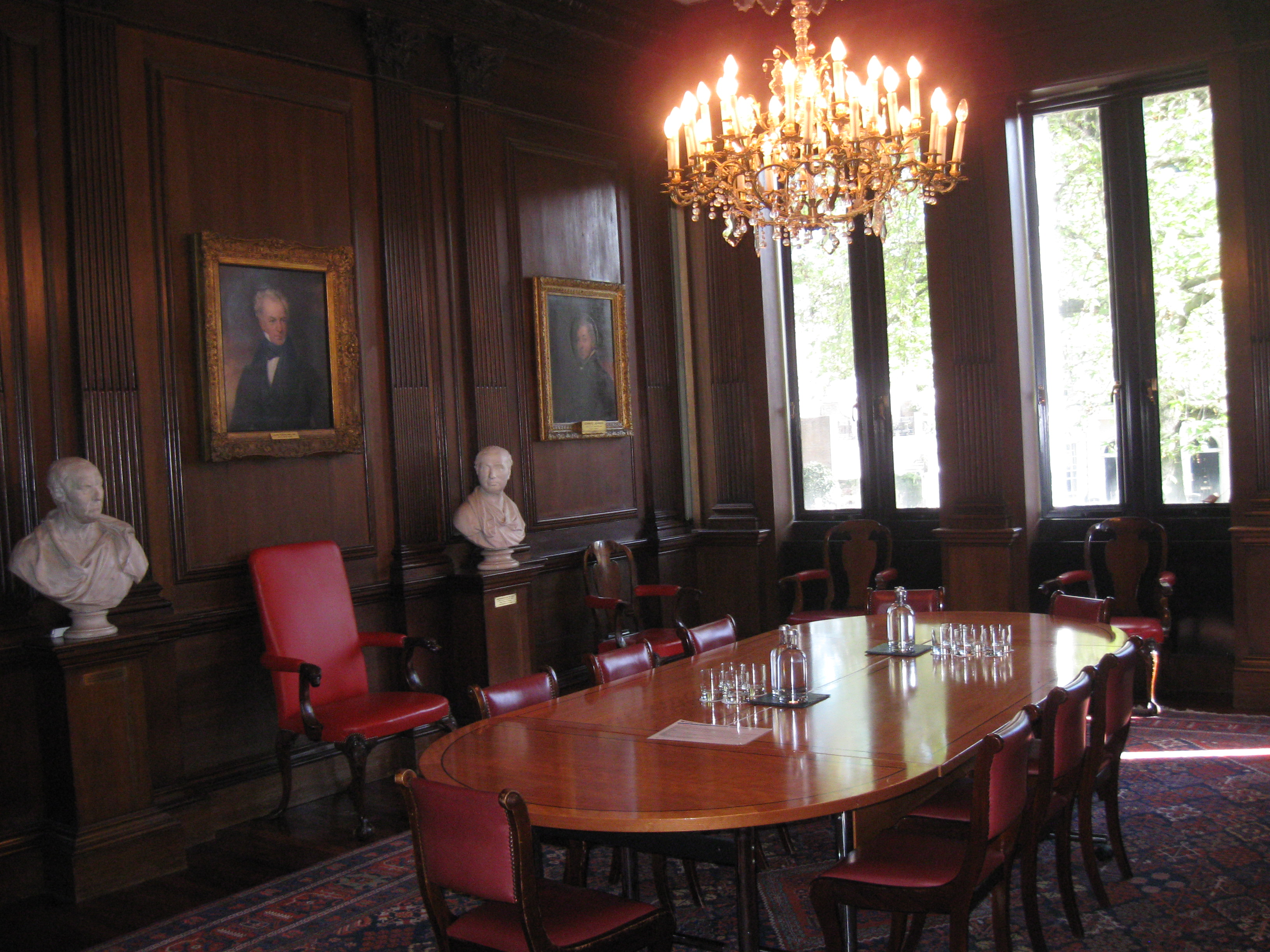 The Censors Room Photograph at The Royal College of Physicians in London